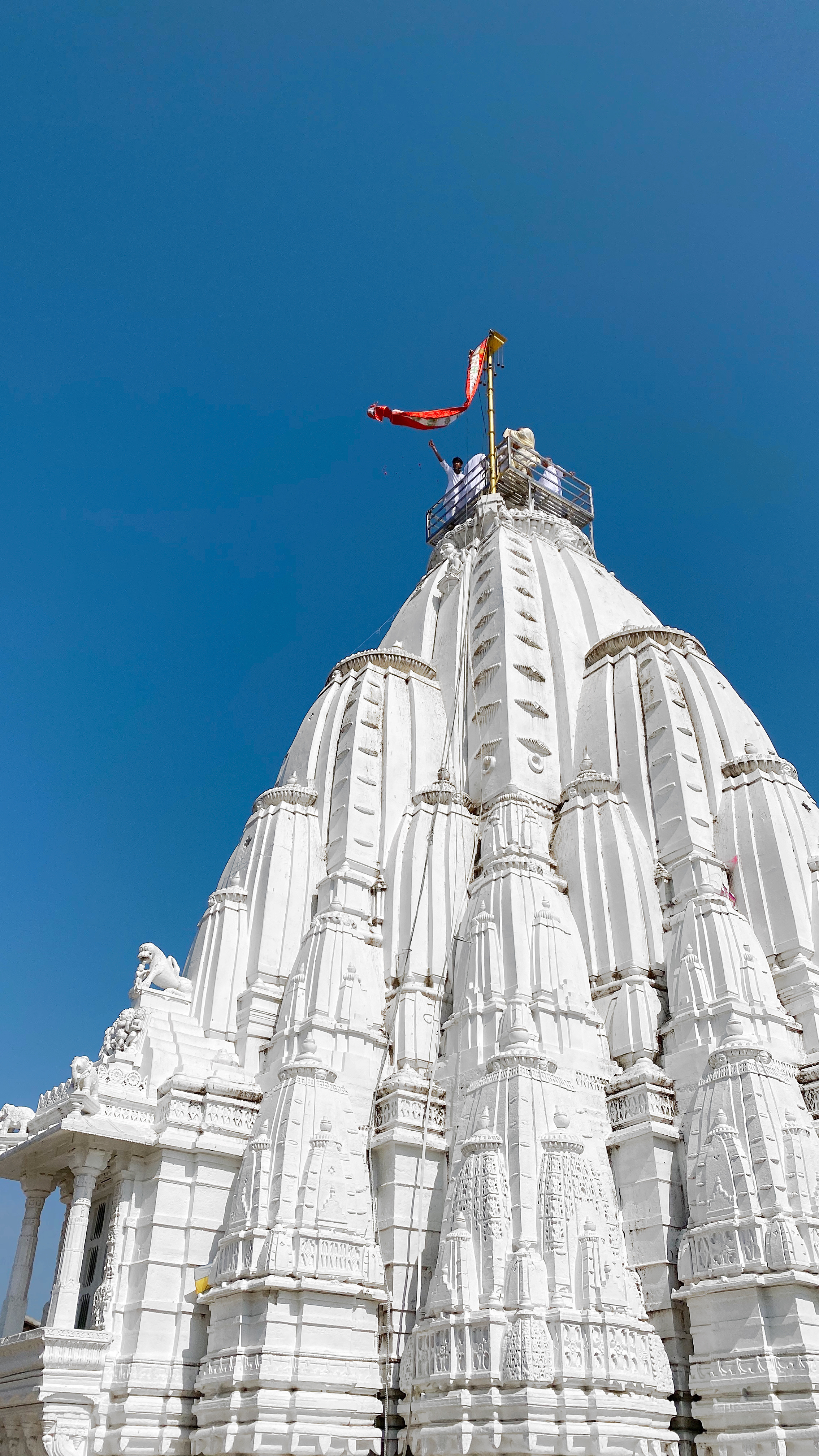 Hathi Derasar ( Jain Temple )